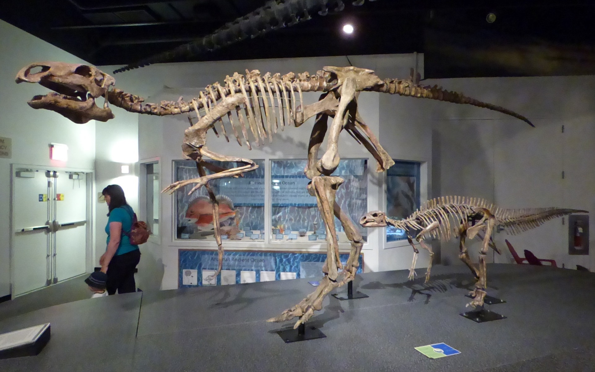 iguanodons, probactosaurus gobiensis, AZ Museum of Natural History / 2014